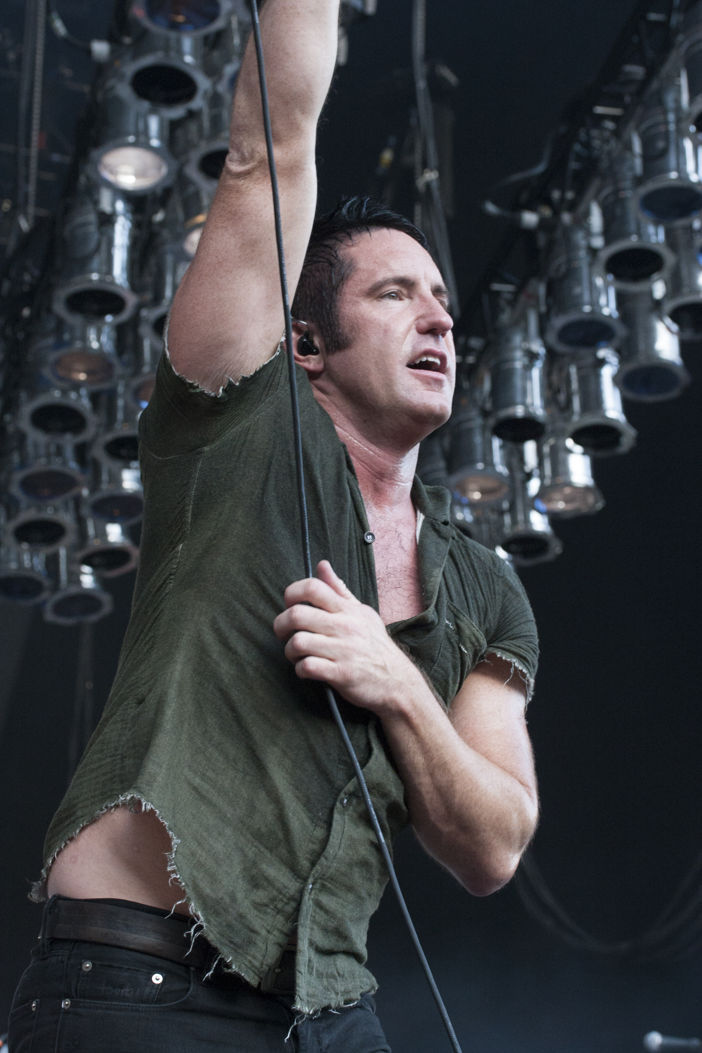 Trent Reznor, Nine Inch Nails 5 21 09 California, (image shot by Fiona Bowie (gebgdc)